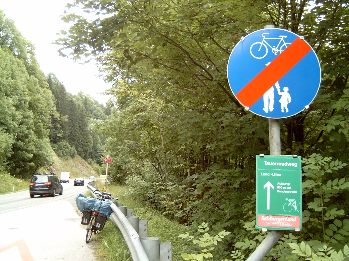 "Tauernradweg" ("Tauern" cycle track), unavoidable short route over the Austrian state road B311